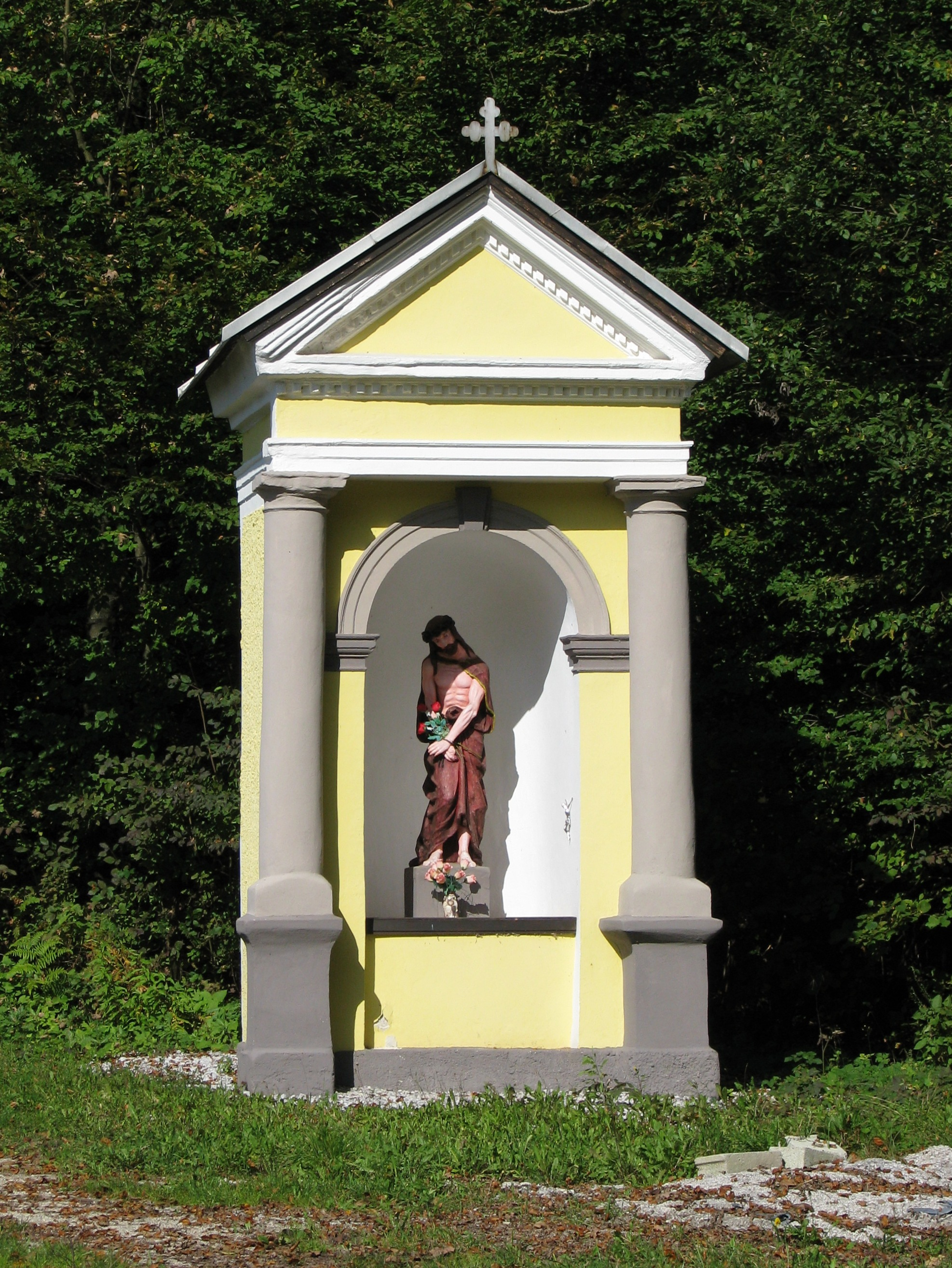 "Rusova kapelica" chapel near Glinek, Slovenia; erected in remembrance of 1813 battle between Austrian and French troops